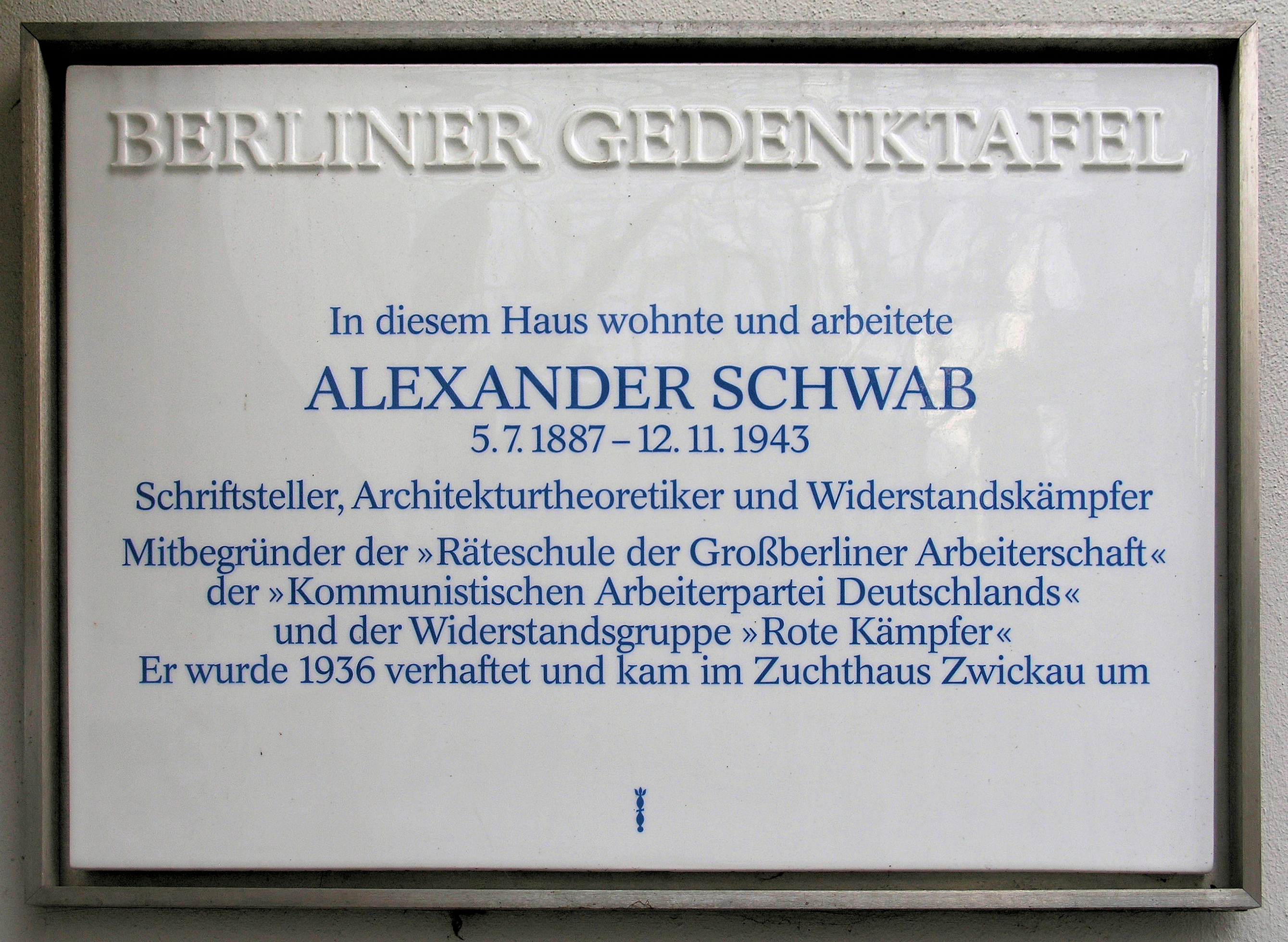 Berliner Memorial plaque, Alexander Schwab, Keithstraße 8, Berlin-Schöneberg, Germany